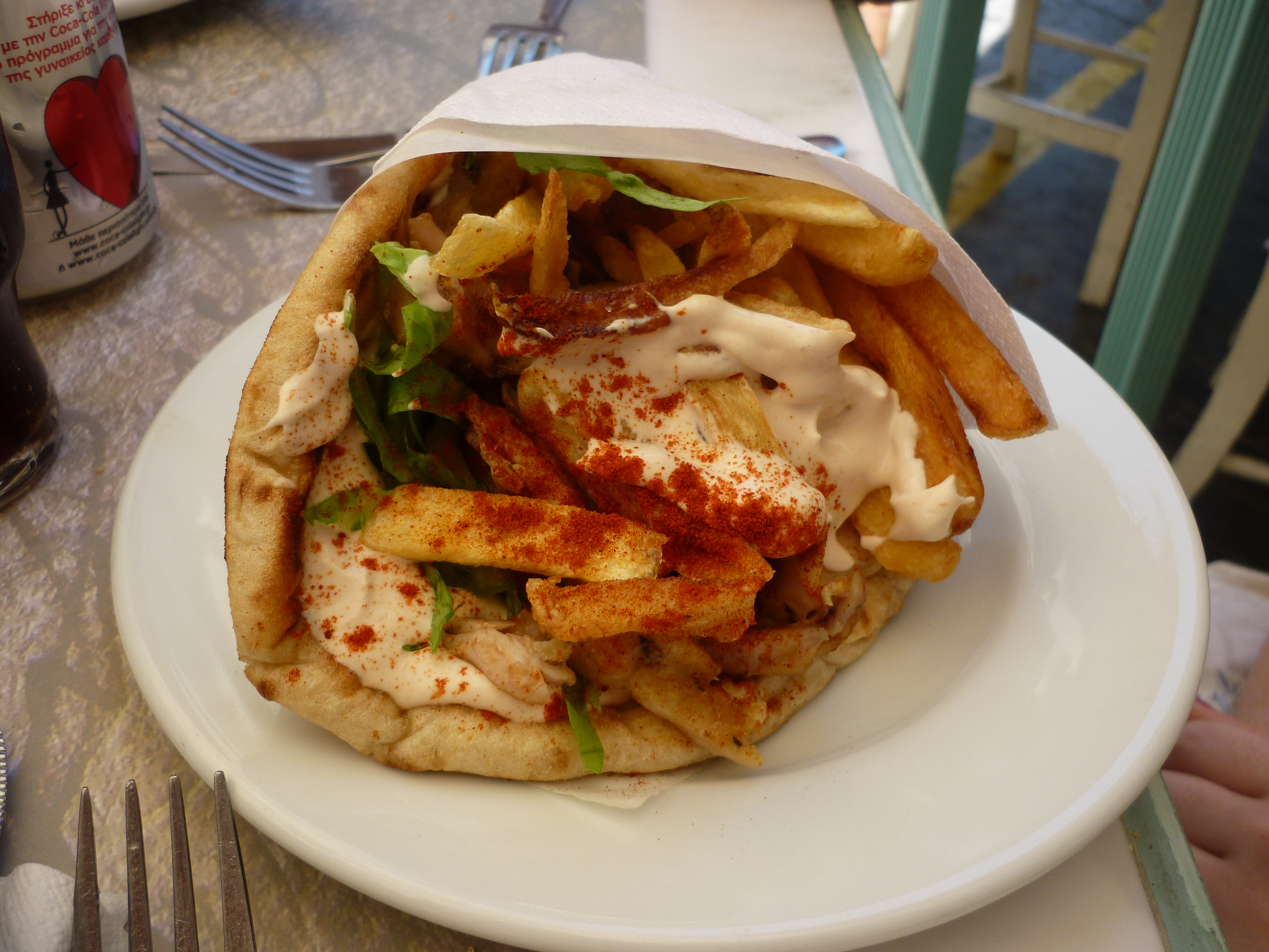 Pita kebab with french fries